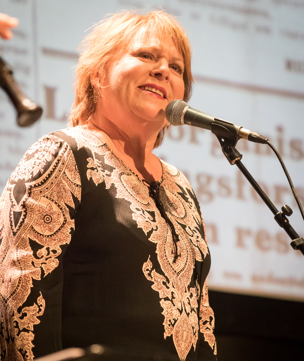 Rudolf Nilsens songs and poetry, performed at the stage of Cosmopolite. The concert took place on 10. December 2016 in Oslo. Lineup: Jon Arne Corell (guitar / vocal) Kari Svendsen (guitar / vocal) Lars Klevstrand (guitar / vocal) Steinar Ofsdal (flute) Carl Morten Iversen (double bass)